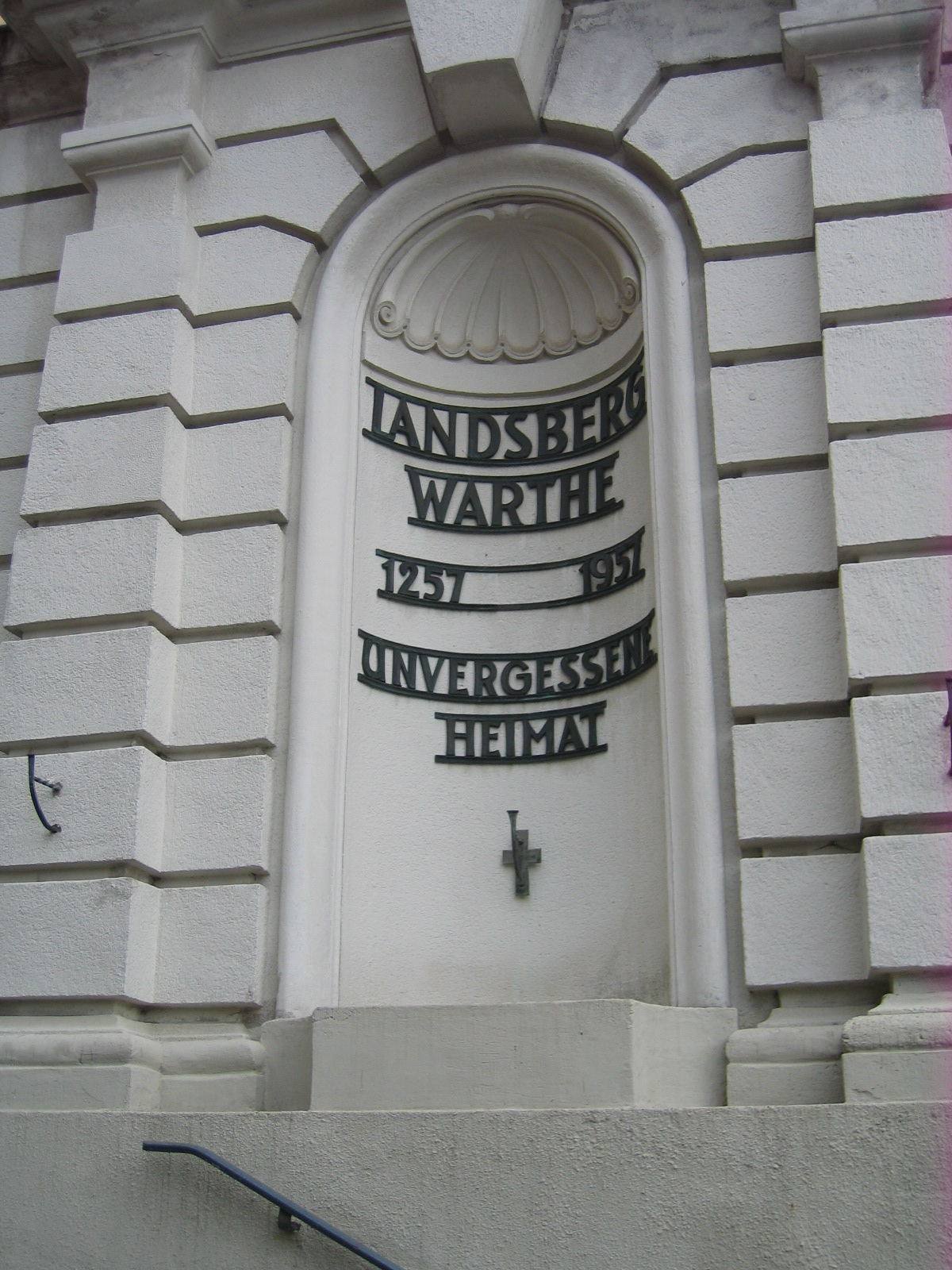 in Herford, District of Herford, North Rhine-Westphalia, Germany.